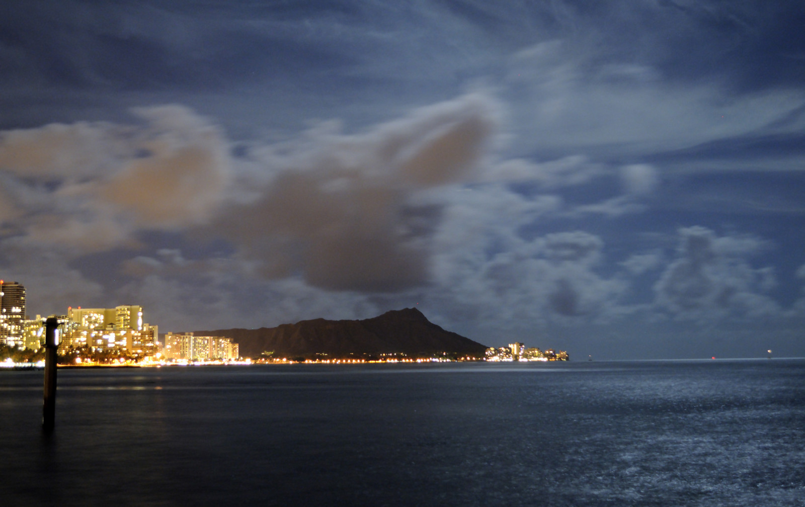 Diamondhead at night